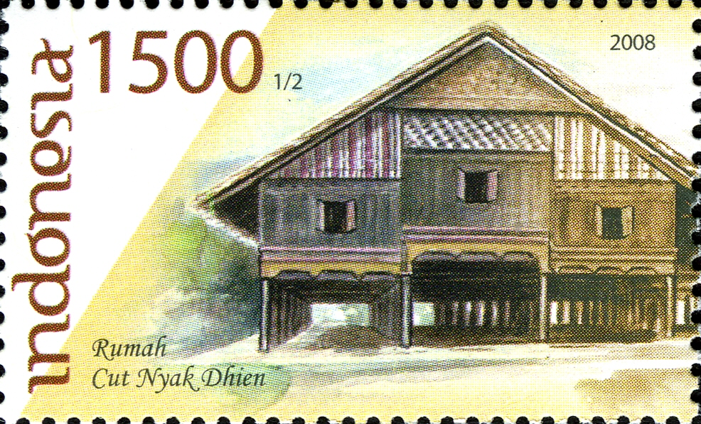 Stamps of Indonesia